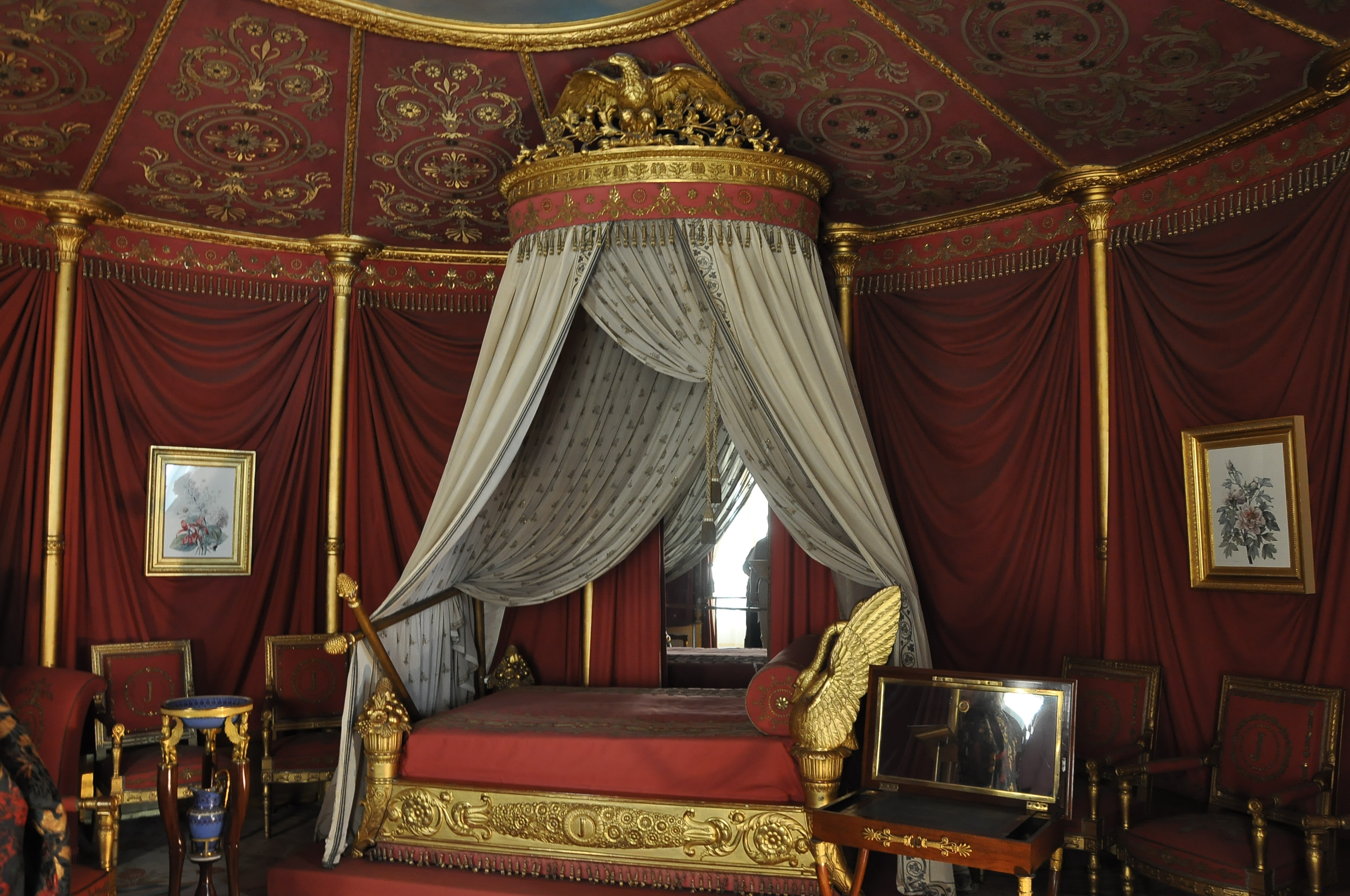 The apartment of empress Joséphine in the Château de Malmaison in Rueil-Malmaison, France. Installed in 1800 in the north part of the Château, this apartment which the consular couple shared during several years stayed in the Joséphine's exclusive usage after 1803. The room of the Empress, luxuriously decorated in 1812 in the shape of a tent with sixteen pieces, show her bed of origin.